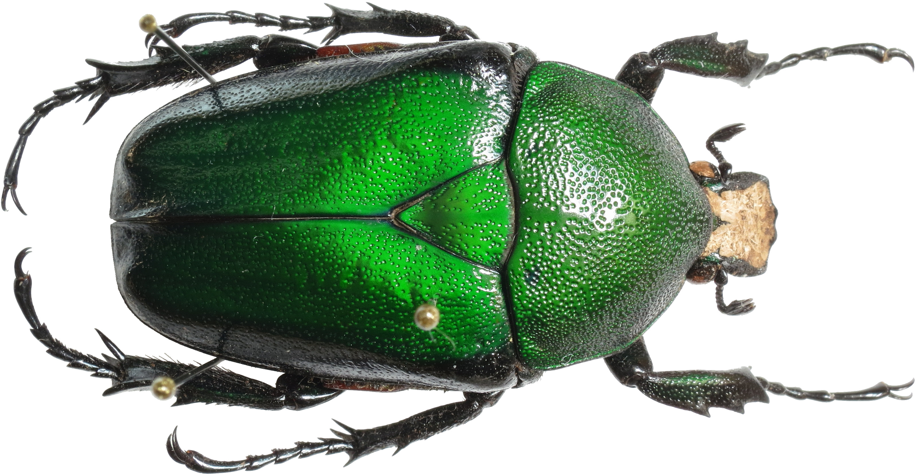 Dicronorrhina oberthuri female from Muheza, Tansania